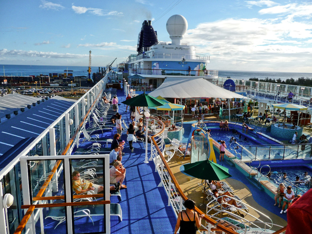 Wise cruise customers arrive early and spend the day sunning on deck.